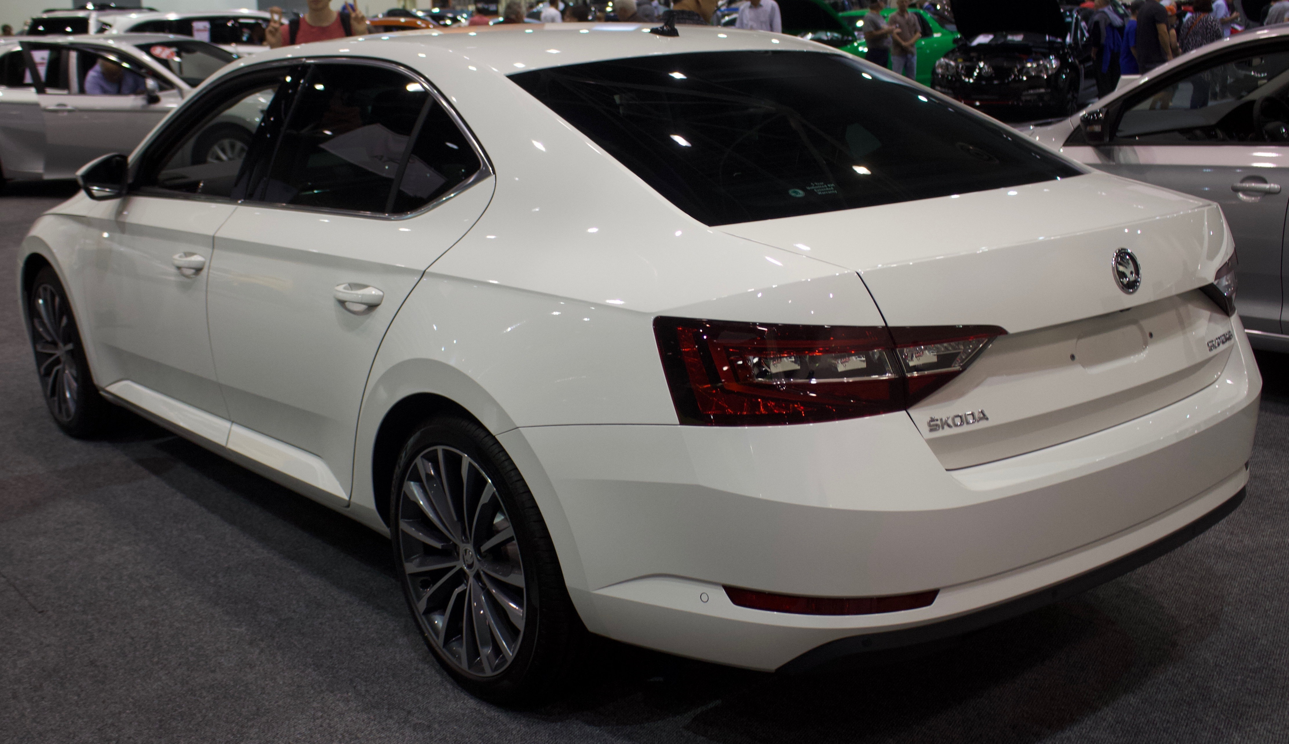 2018 Skoda Superb (NP) 162TSI sedan. Photographed at the 2018 Motor Pavilion at Perth Convention and Exhibition Centre, Perth, Western Australia, Australia.